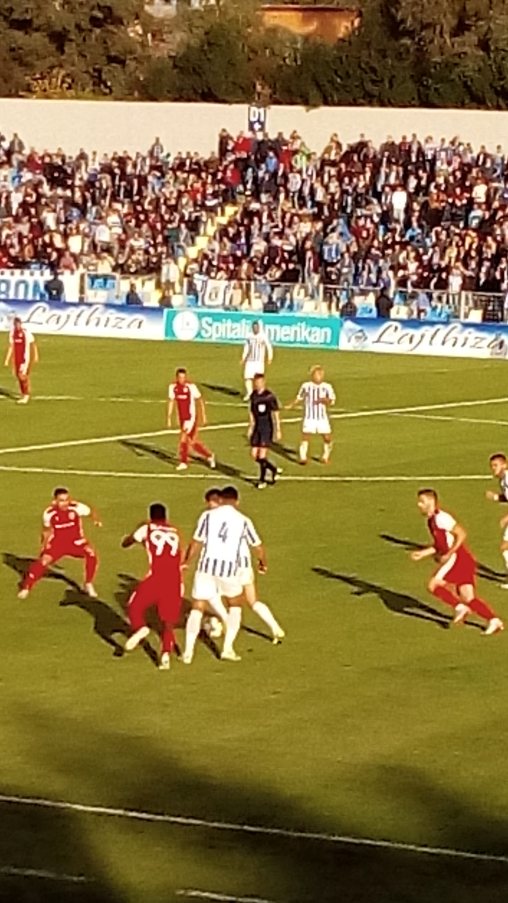 Players in action.